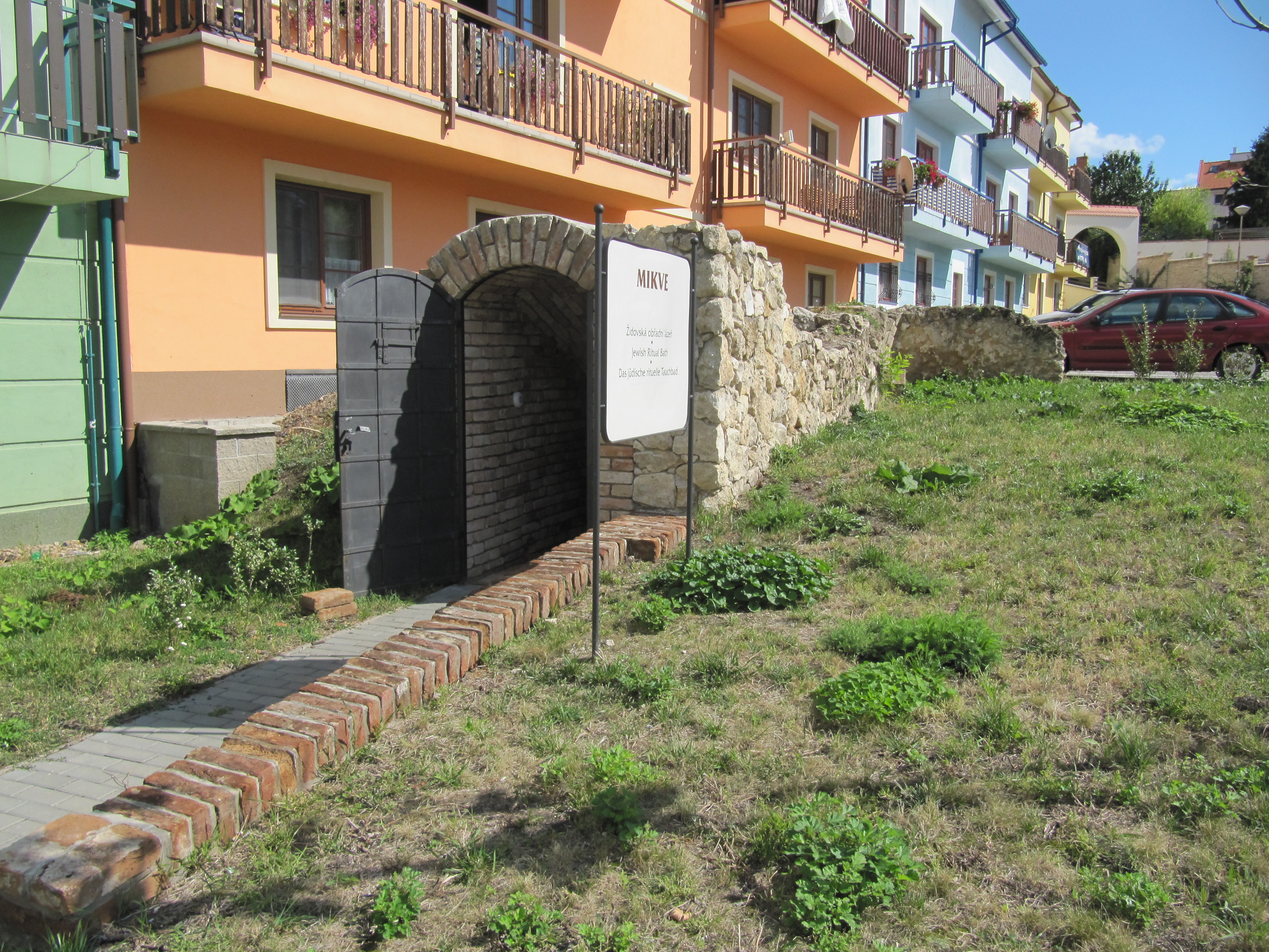 Mikulov in Břeclav District, Czech Republic. The entrance to the mikveh ritual Jewish bath. The remains of a mikveh from the turn of 18th and 19th century discovered in 2004 during an archaeological survey at the former site of the Square Lázeňské náměstí in the Jewish Quarter in Mikulov.